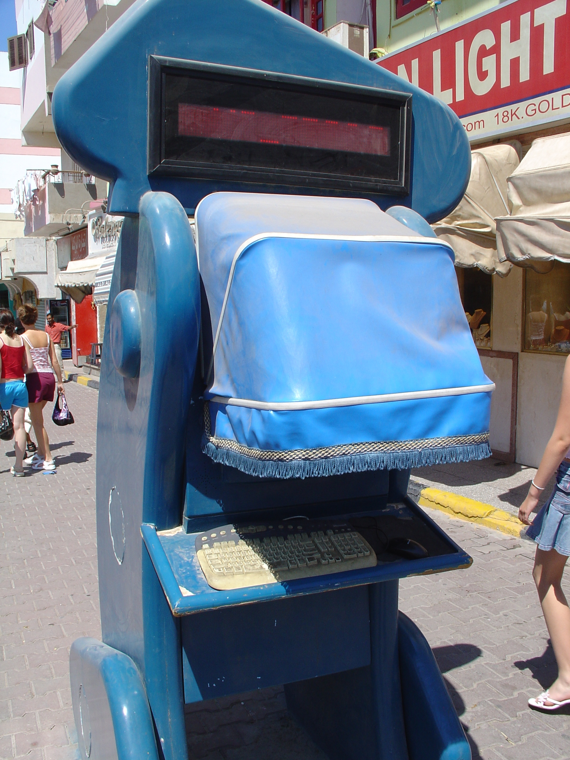 An Egyptian online terminal in a shopping street in the city of Hurghada. It didn't work by the way... Photographer is Espen Birkelund. Shot with Sony DSC-V1